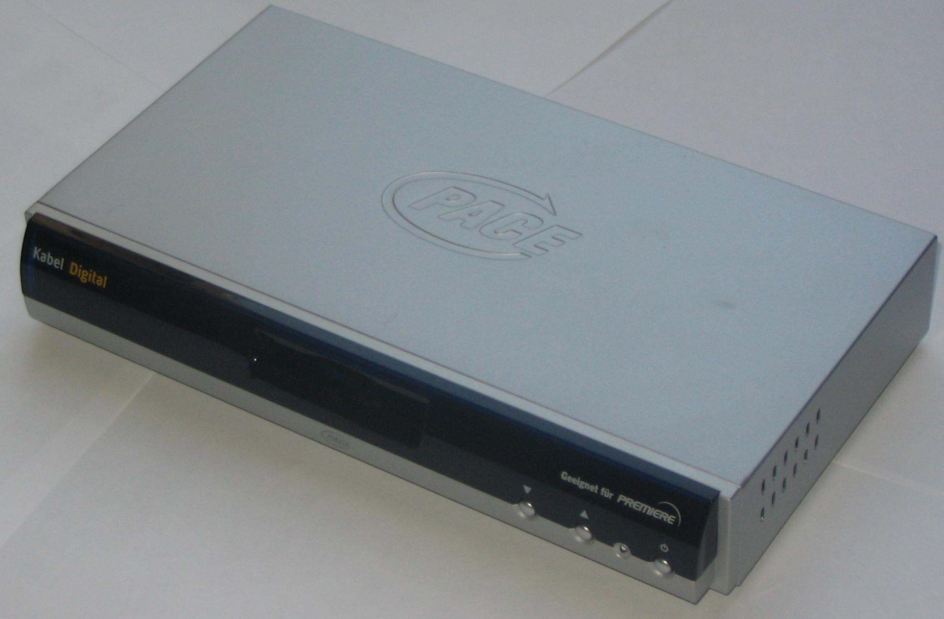 The German "Kabel Digital" ("Kabel Deutschland") Receiver Photo taken on June 26, 2006. Photo by User:Jarlhelm